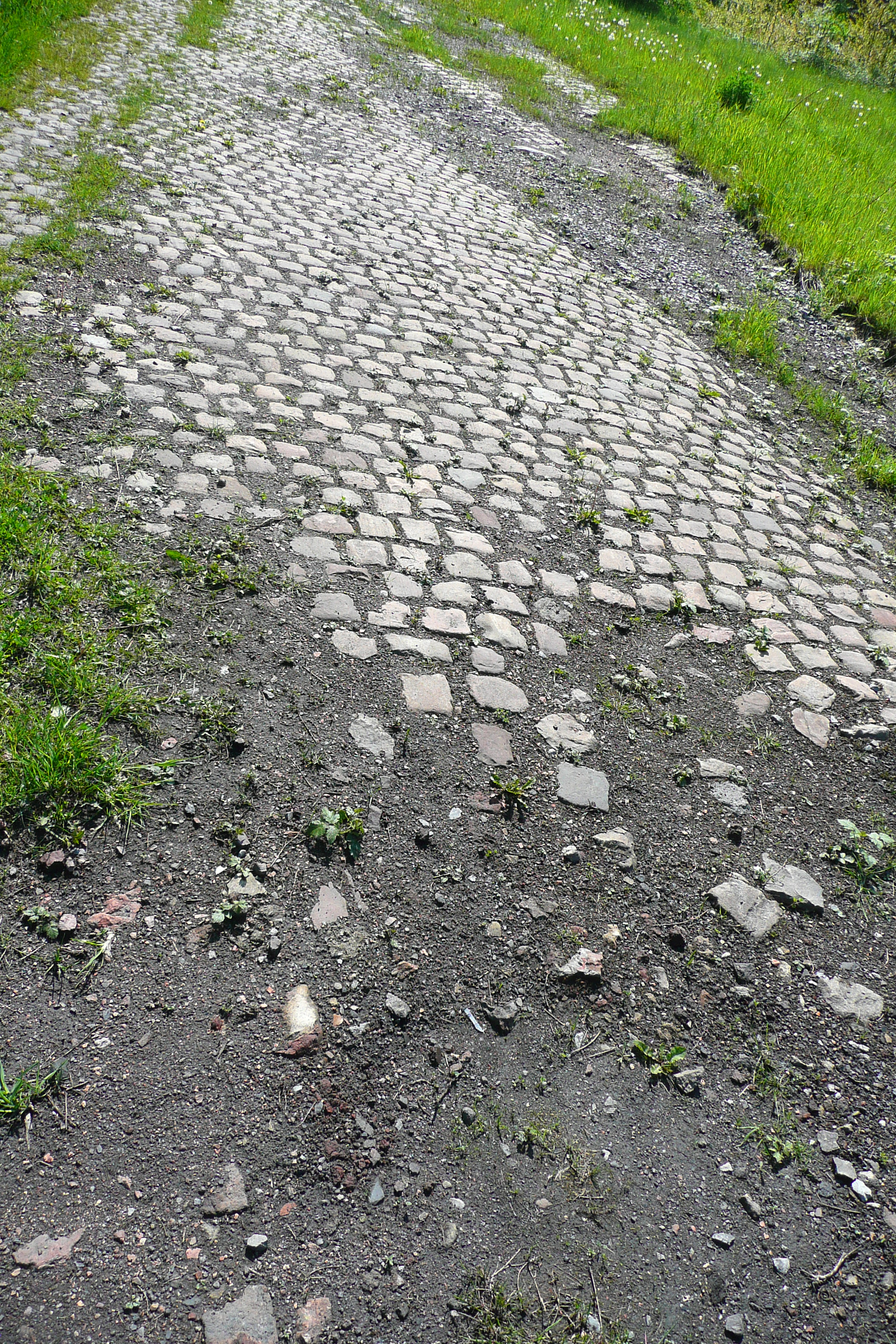 Vestige dans le prolongement de la rue de l'Observatoire, au pied du Terril des Viviers